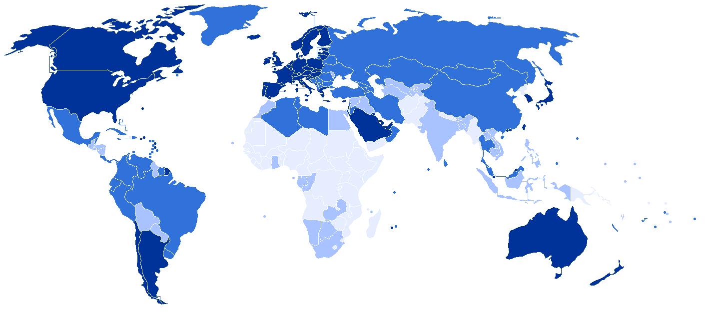 The United Nations Human Development Index (HDI) rankings for 2015. For full details, see List of countries by Human Development Index (en.wikipedia) Very High High Medium Low Data unavailable